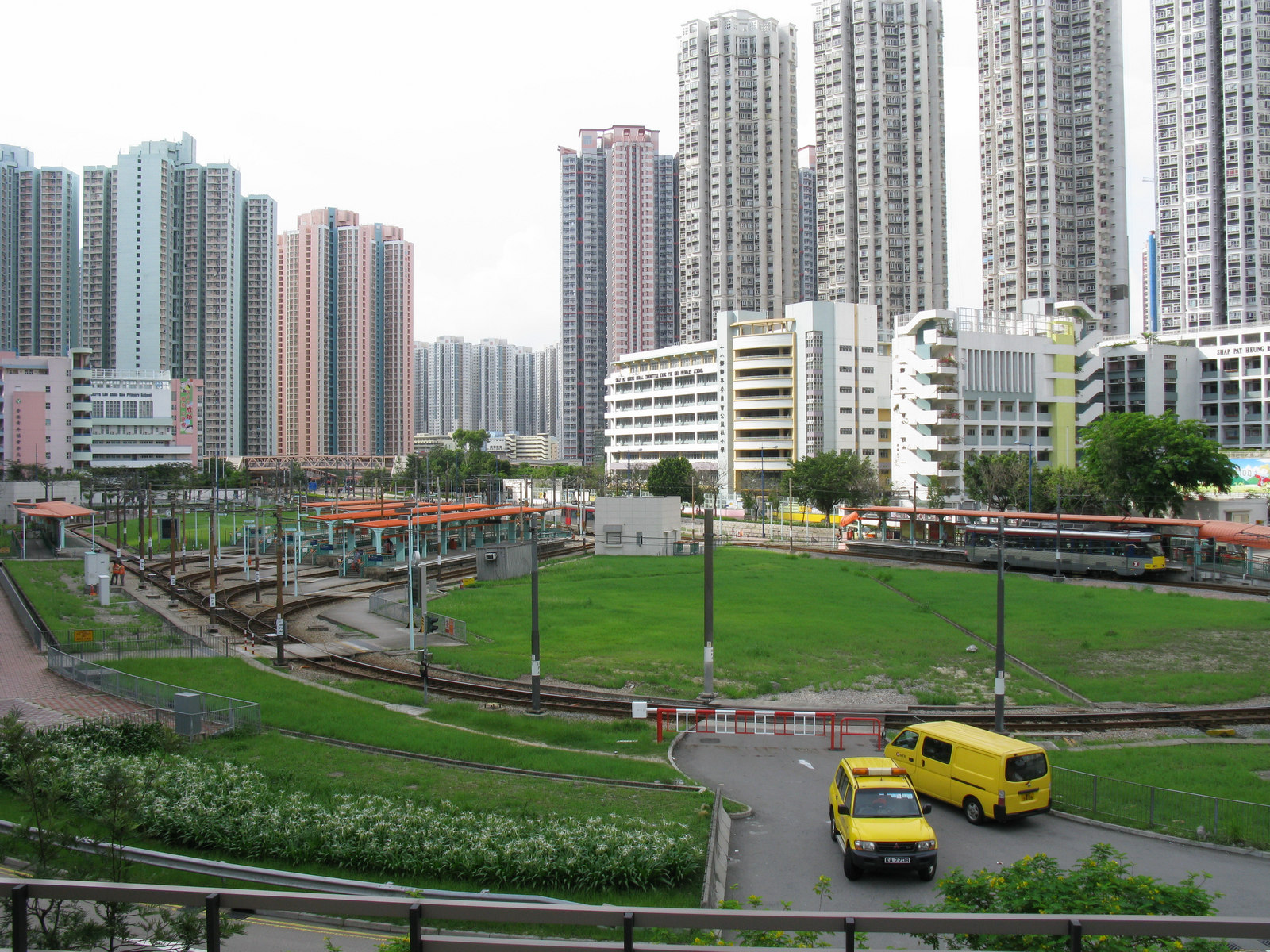 Tin Wing Stop, Light Rail